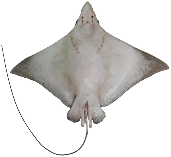 A New Species of Eagle Ray Aetobatus narutobiei from the Northwest Pacific: An Example of the Critical Role Taxonomy Plays in Fisheries and Ecological Sciences